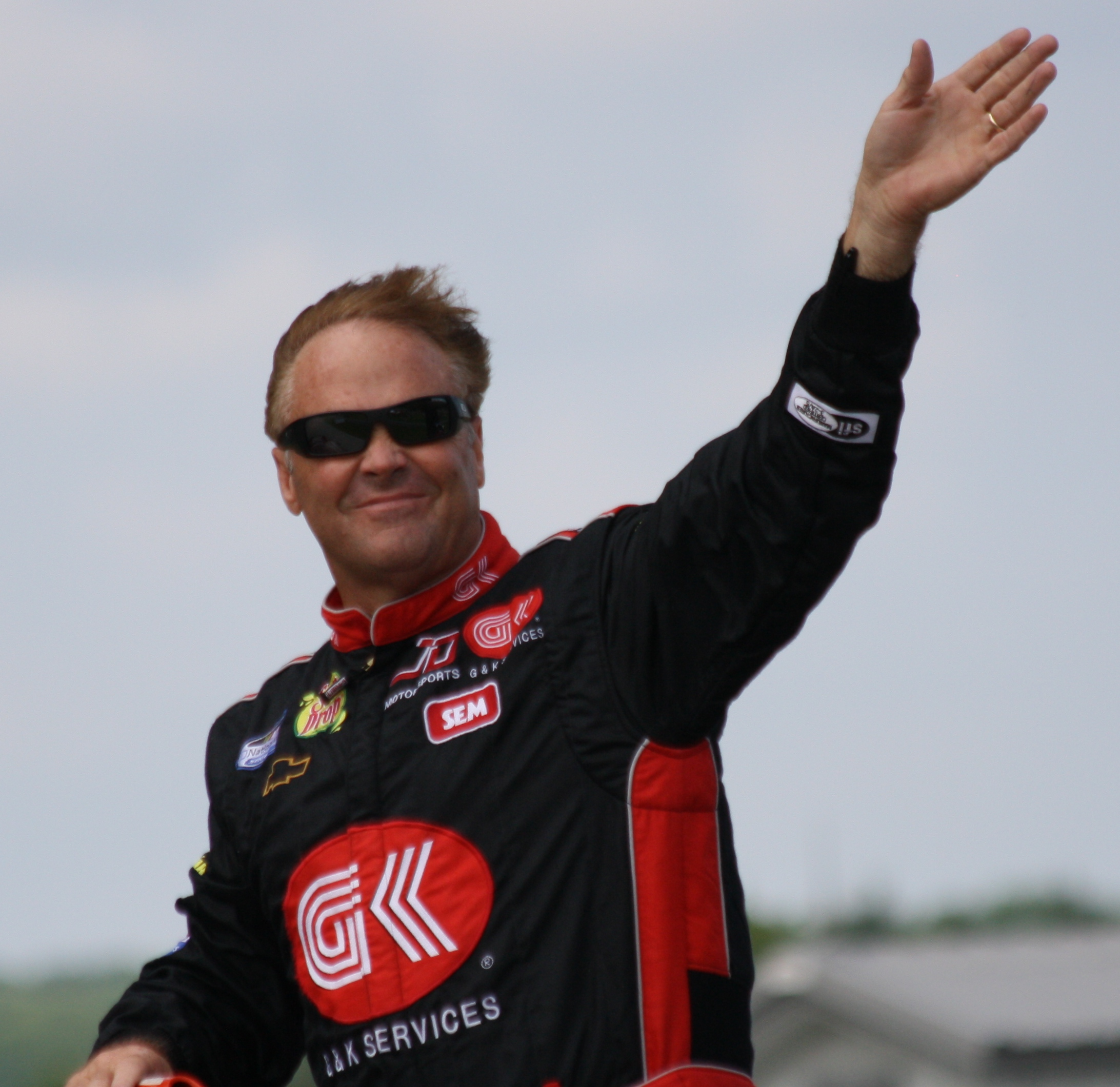 NASCAR driver Mike Wallace (racing driver) at the 2013 Johnsonville Sausage 200 Nationwide Series race at Road America.